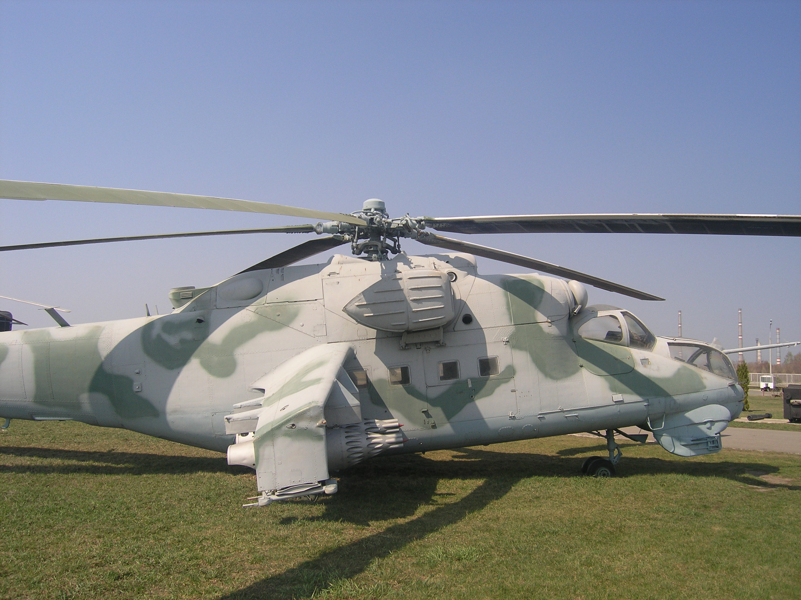 Mi-24, technical museum, Togliatti, Russia